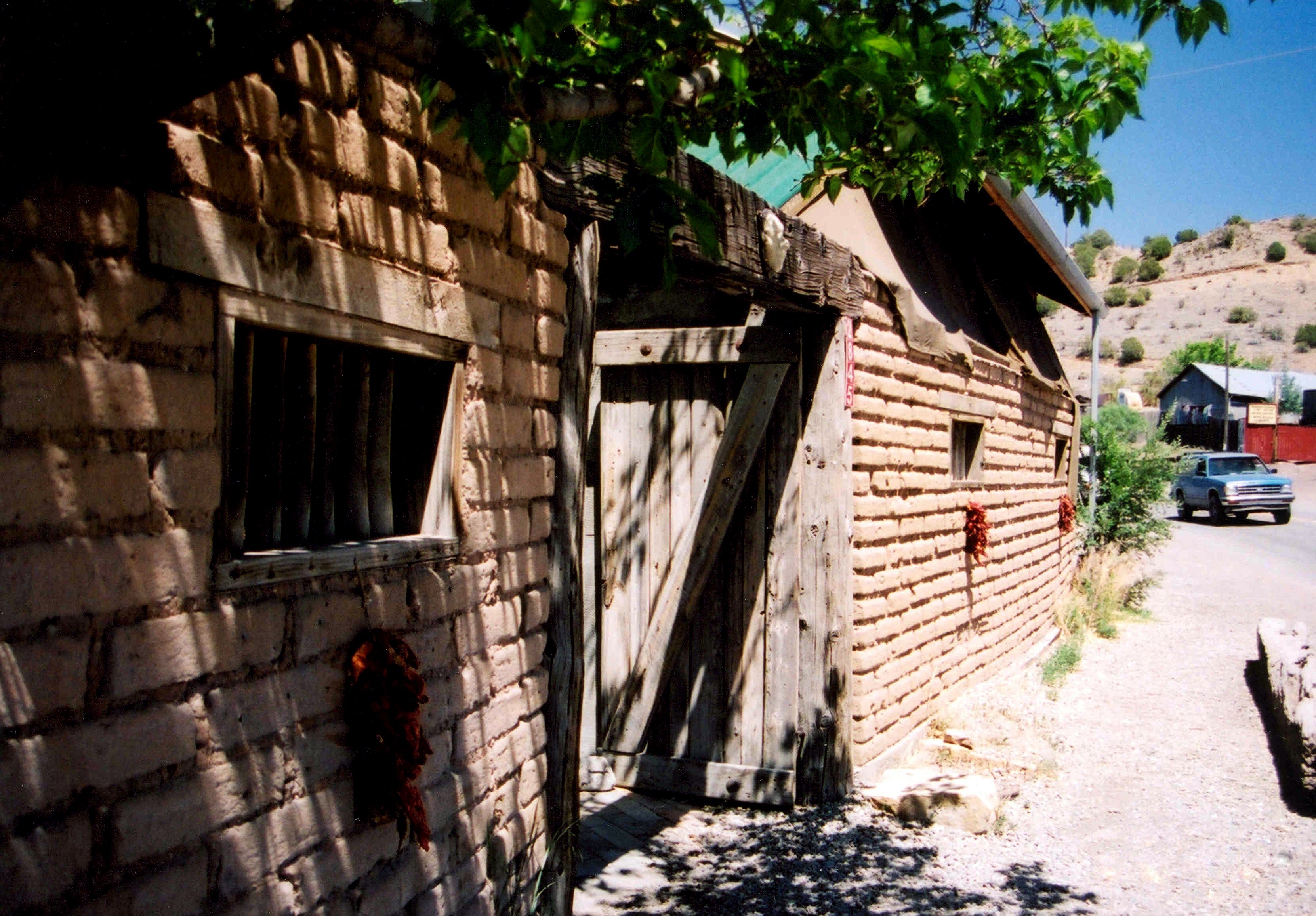 Old adobe walls stand as a reminder of the past in Madrid, New Mexico.